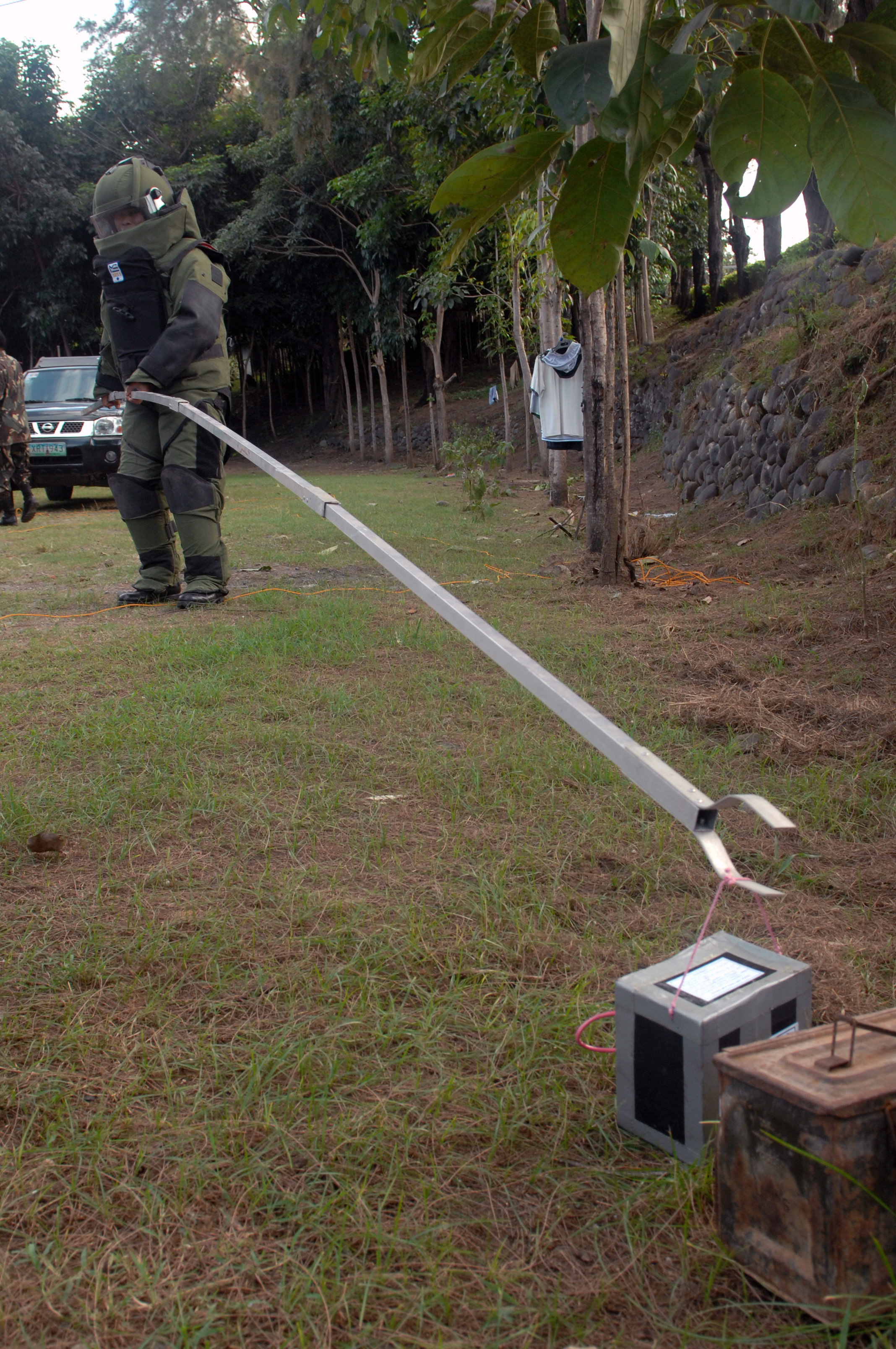 CAGAYAN DE ORO, Philippines (Dec. 10, 2007) Sgt. Gilbert C. Punsalan attached to the 69th Explosive Ordnance Disposal (EOD) Team, Philippine Army, wears the SRS-5 light weight explosive protection suit while uses a long pole and disruptor on a simulated Improvised Explosive Device on board Camp Edilberto Evangelista. The explosive protection suit was presented to the AFP as part of a Mutual Logistics Support Agreement. U.S. Navy photo by Mass Communication Specialist 1st Class Daniel R. Mennuto (Released)